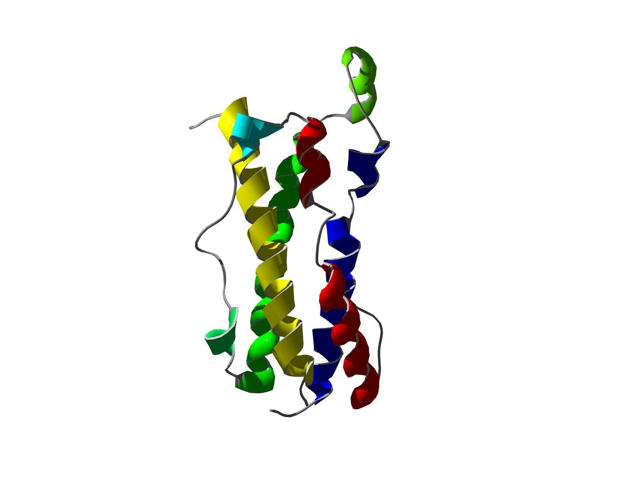 Ribbon representation of human OSM. Note the four helix bundle topology.